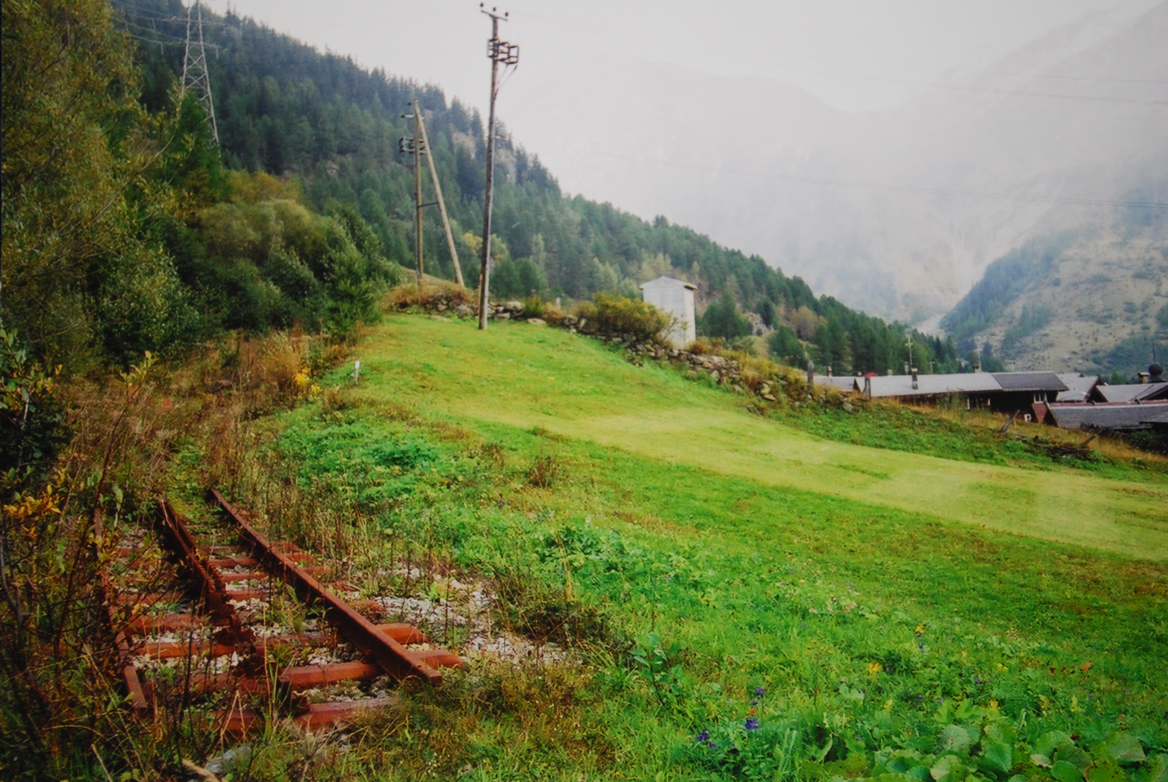 Old track of Furka-Oberalp-Bahn, Oberwald, Valais, Switzerland. In 2010 Dampfbahn Furka Bergstrecke reopened this line.